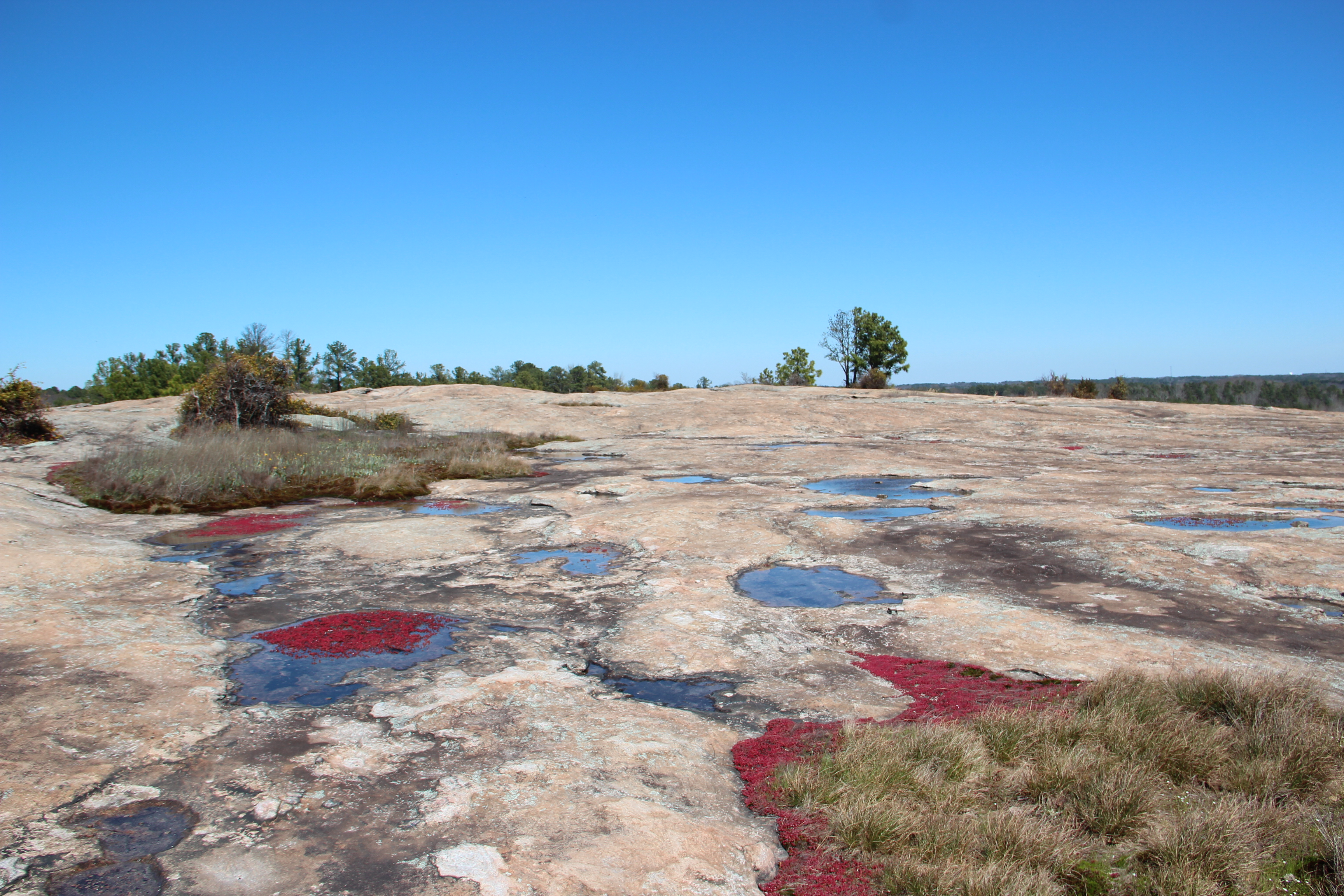 View of Arabia Mountain at the top